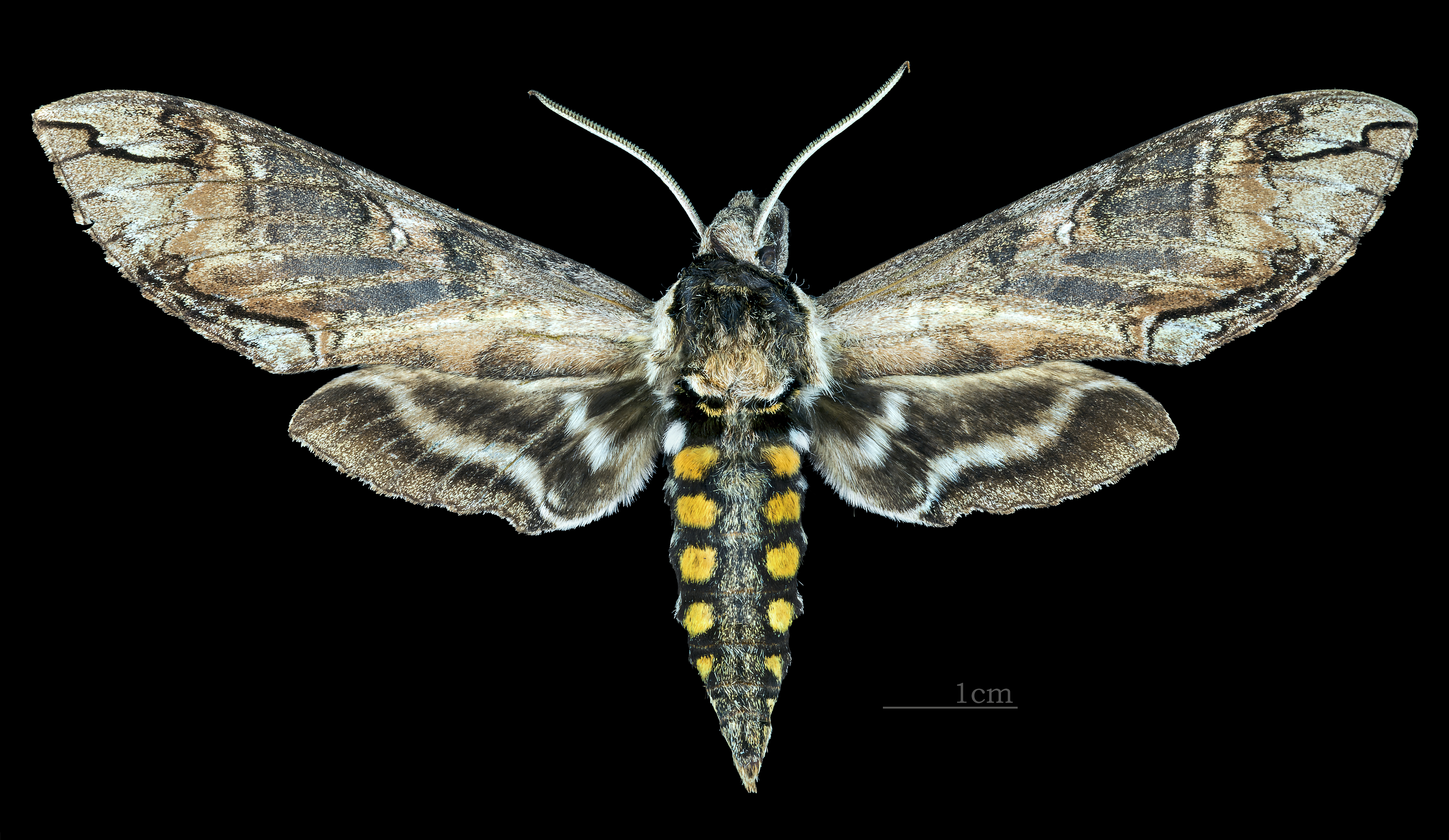 Manduca tucumana - Dorsal side Collection of the Mathematician Laurent Schwartz